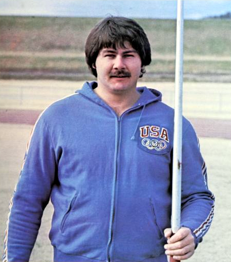 Sam Colson